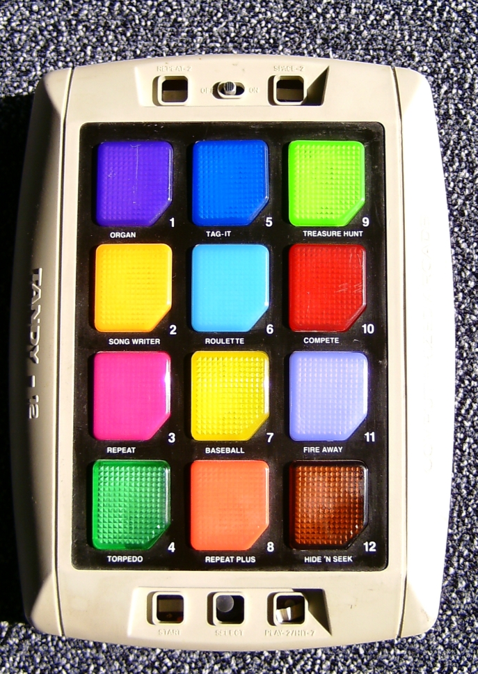 Tandy-12 computerized Arcade, electronic toy, like Simon and 11 other games. With the game came paper sheets and plastic coins (eg for Roulette), 1982, manufactured in Hong Kong, battery label 8A1, only chip MP1272-MSLΔ8122 from TI